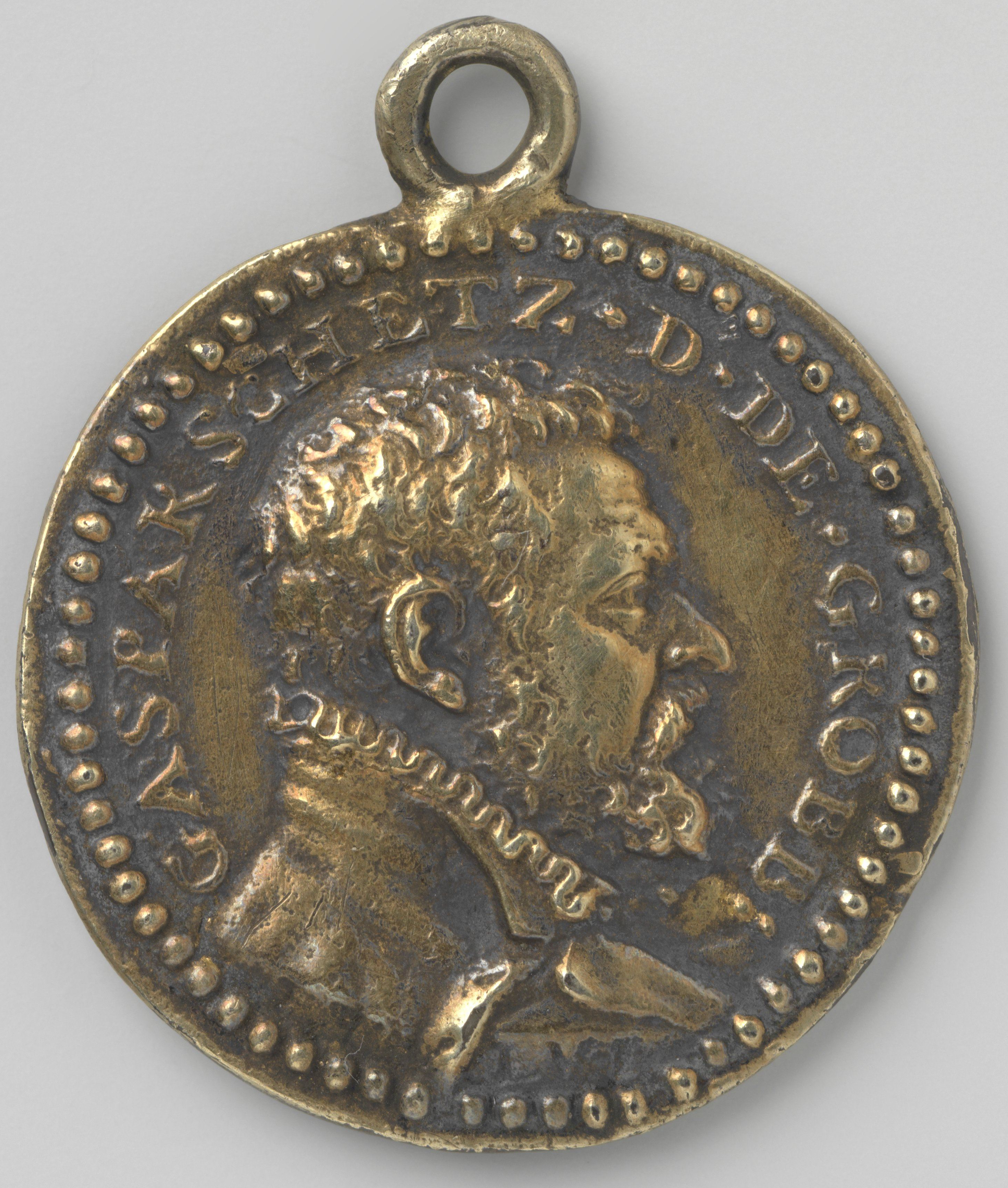 Silver commemorative medal with eye. Front: bust of a man surrounded by an inscription. Reverse: hour glass in between inscription surrounded by another inscription above the date.